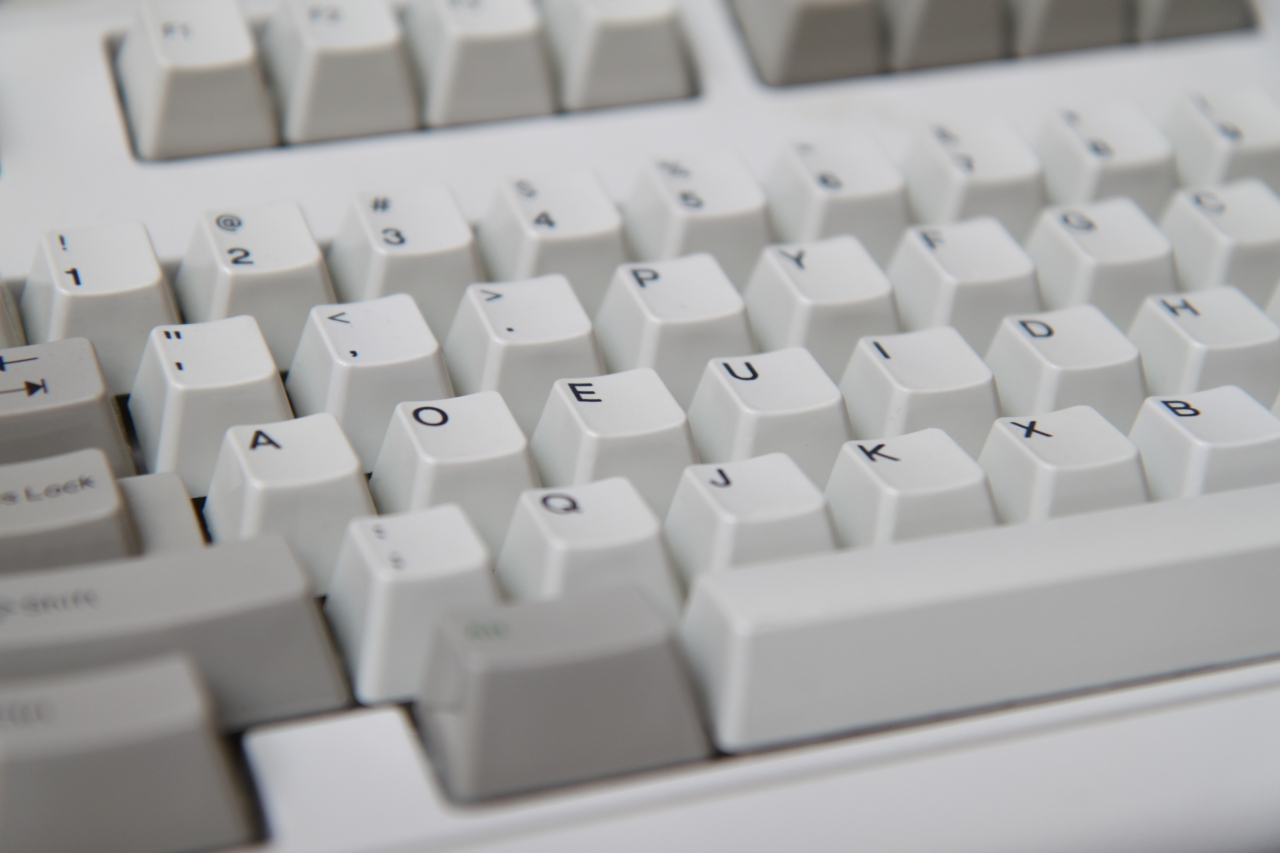 IBM Model M keyboard in Dvorak